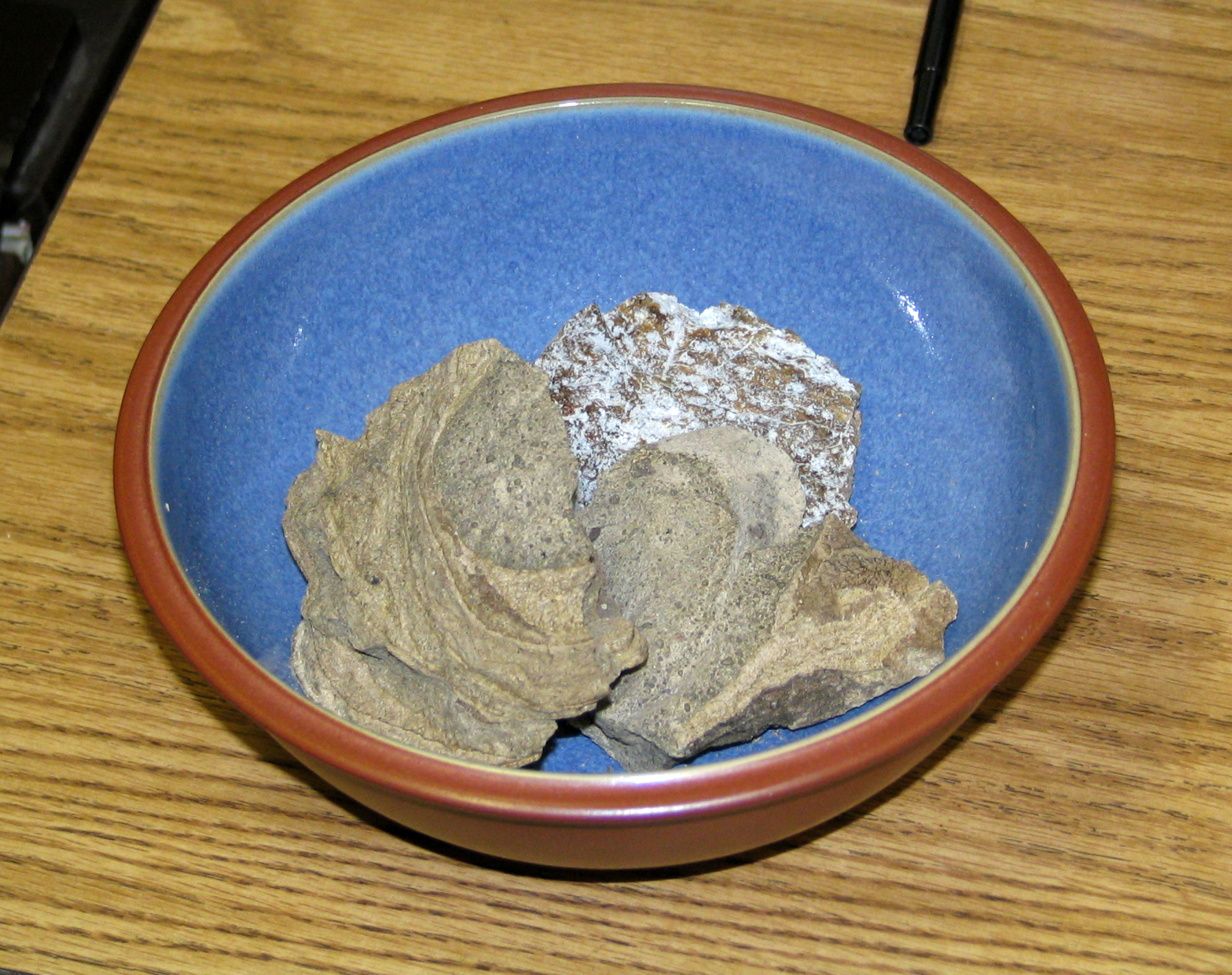 Real ambergris from a whale.